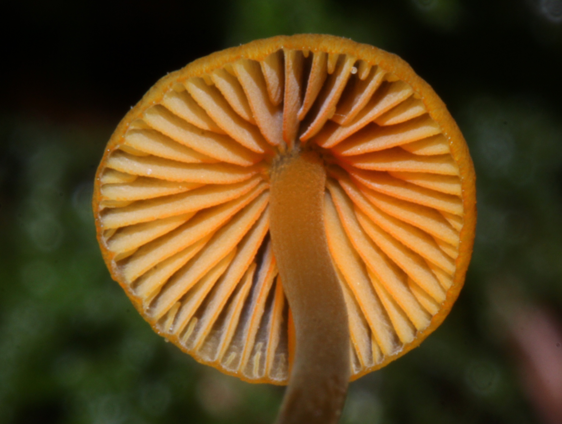 The gills of the agaric fungus Mycena aurantiomarginata (Fr.) Quél.